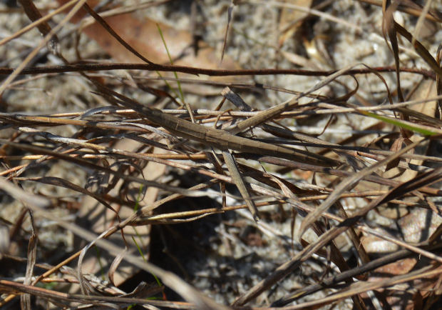 Achurum carinatum found in Lady Lake, Florida, USA on April 19, 2015